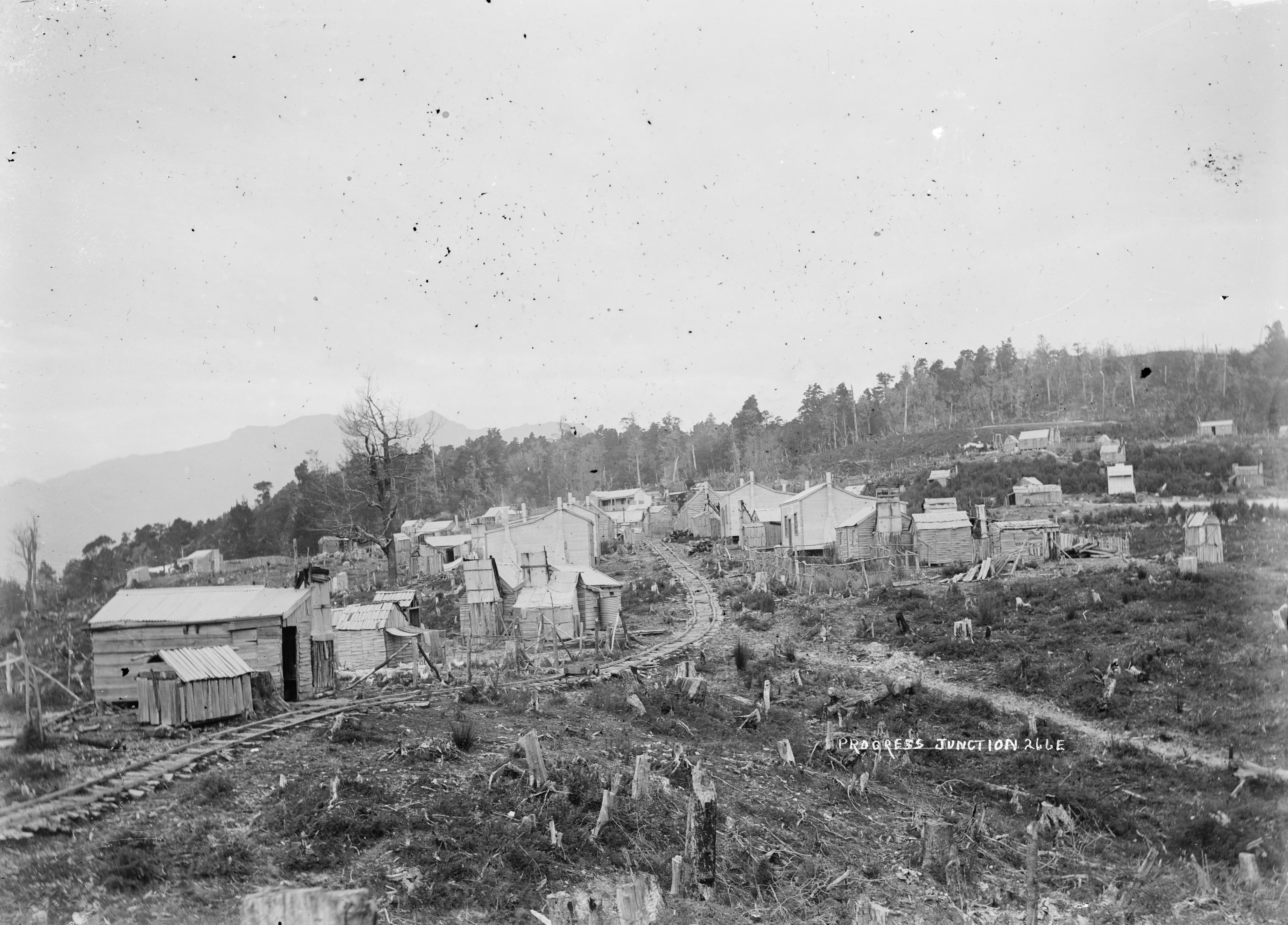 View of Cornish Town, also known as Cousin Jack Town, Inangahua County, with working men's huts, a narrow railway line running through the centre, and native forest behind. Photograph taken by William Archer Price, circa 1910s. Inscriptions: Inscribed - Photographer's title on negative -bottom right: Progress Junction. [No.] 266E. Quantity: 1 b&w original negative(s). Physical Description: Dry plate glass negative 4.5 x 6.5 inches View of Cornish Town, also known as Cousin Jack Town, Inangahua County. Price, William Archer, 1866-1948 :Collection of post card negatives. Ref: 1/2-001885-G. Alexander Turnbull Library, Wellington, New Zealand.